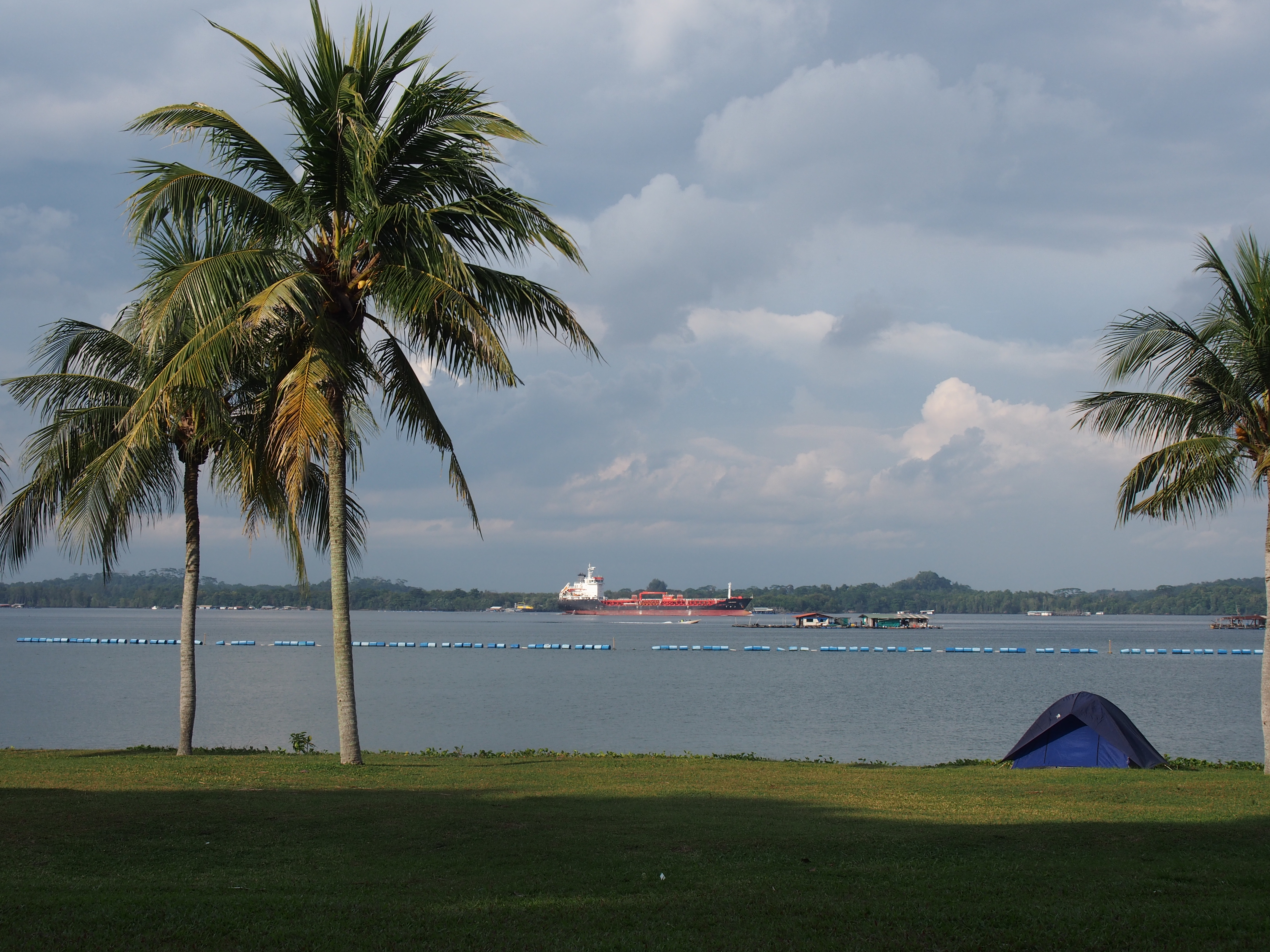 Picturesque view of Pasir Ris beach park; Pulau Ubin island in background.